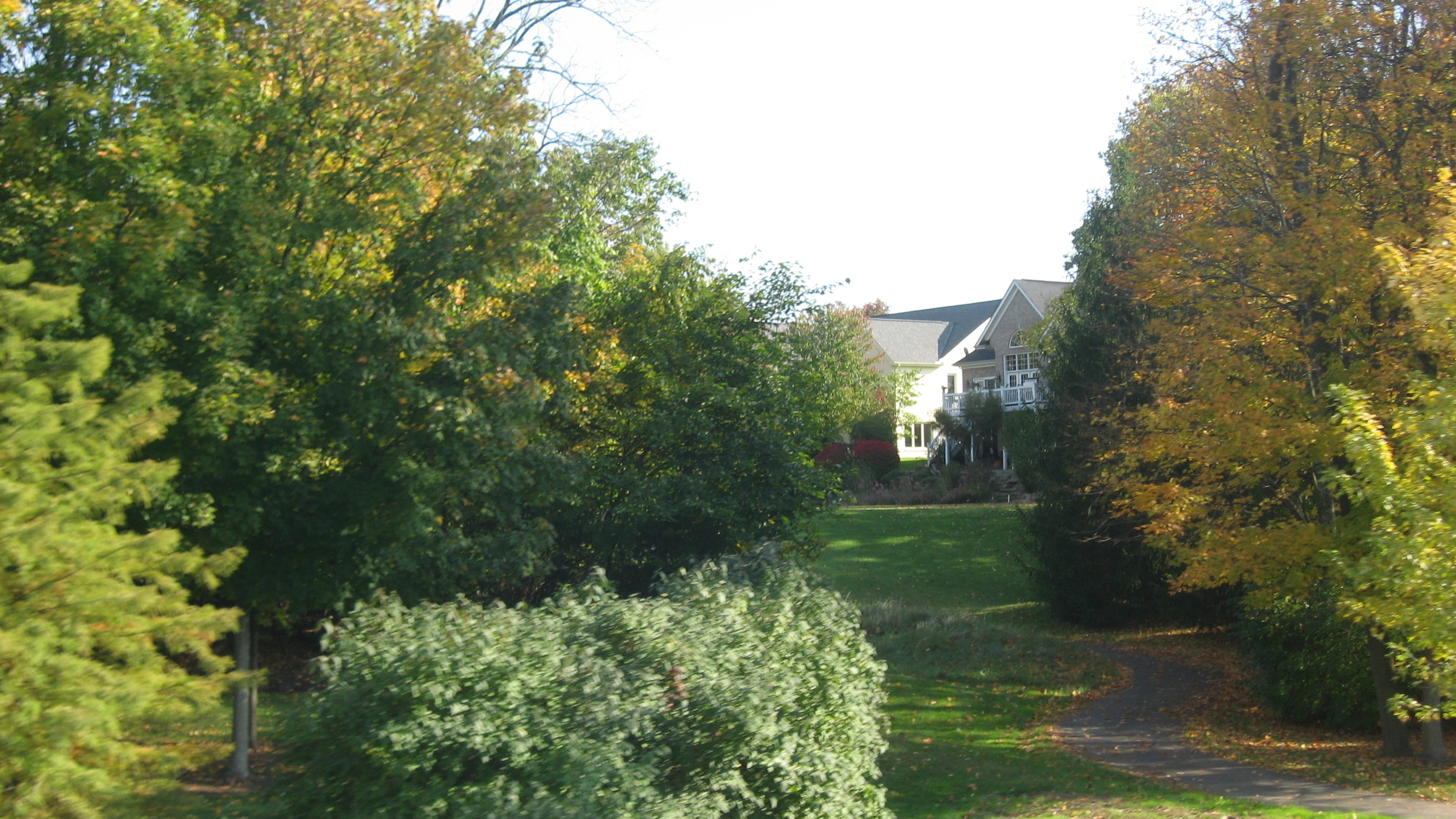 Looking eastward from Cincinnati-Dayton Road (U.S. Route 42) toward part of the Wetherington Golf and Country Club, located in West Chester Township, Butler County, Ohio, United States. Some of the open land is part of the archaeological site surrounding an Indian mound; known as the Williamson Mound Archeological District, the site is listed on the National Register of Historic Places.